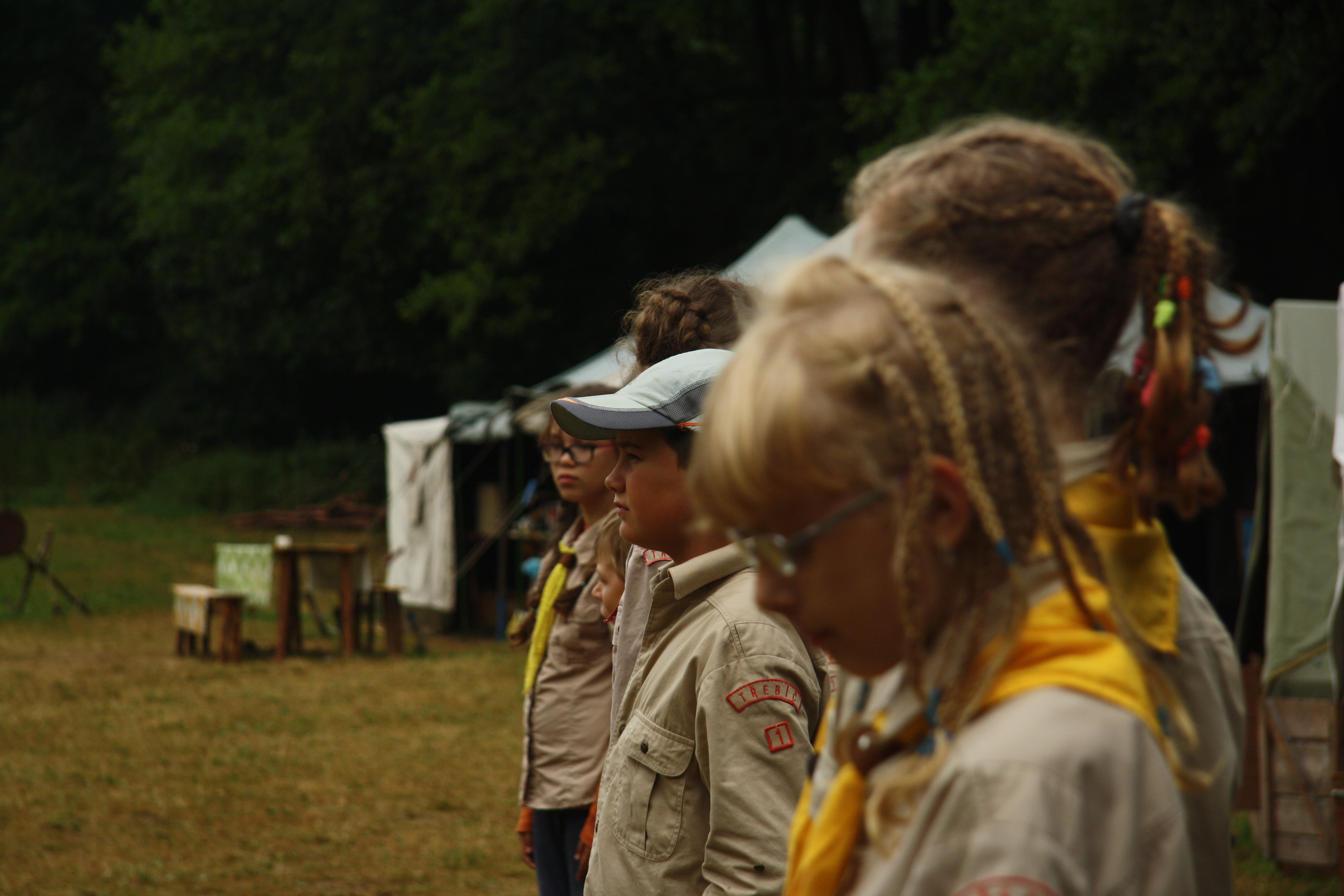 Child scouts from Třebíč at formation near Kouty, Třebíč District.